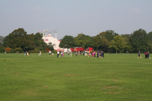 Central Park, Dartford. A pleasant and popular open space, where people have assembled in anticipation of a junior football match. The Big Top of Smith's Circus is seen in the background.